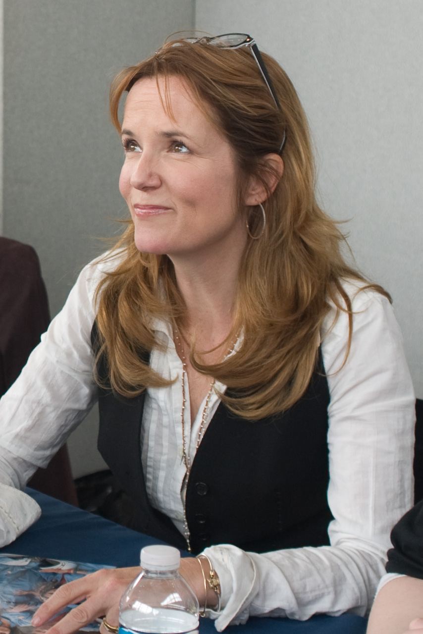 Lea Thompson at the May 2008 Collector Mania 13 Convention in Great Holm, England, Great Britain.